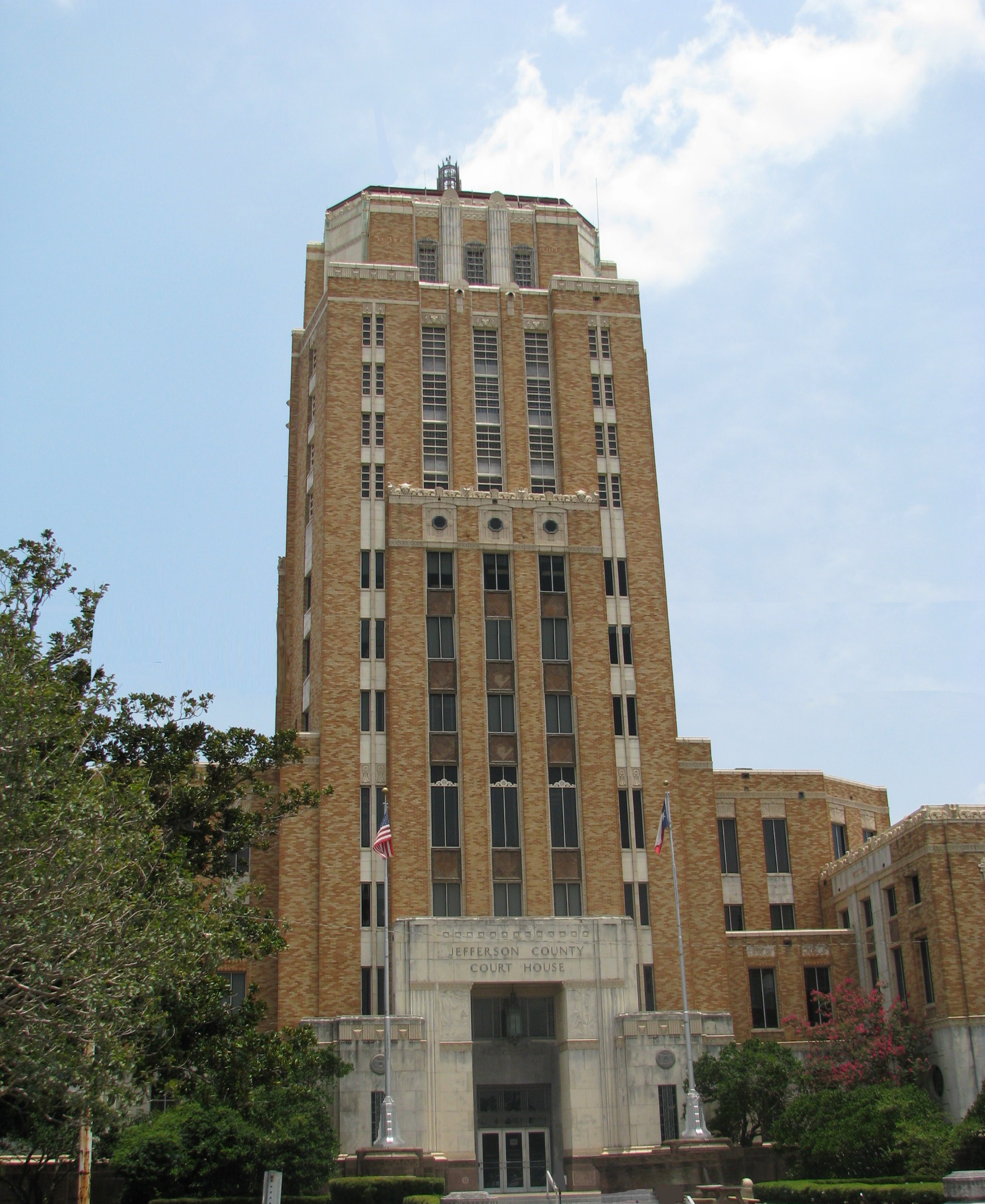 Jefferson County Courthouse, Beaumont, Texas